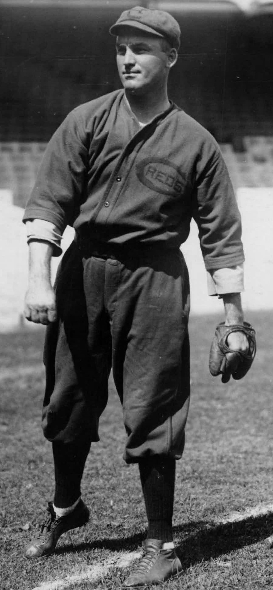 Professional baseball player Jimmy Sheckard